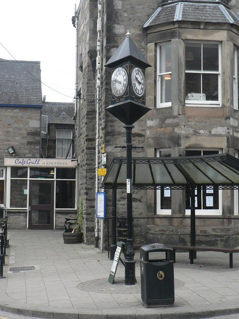 Pitlochry: clock Dated 2000, this clock is triangular rather than square.